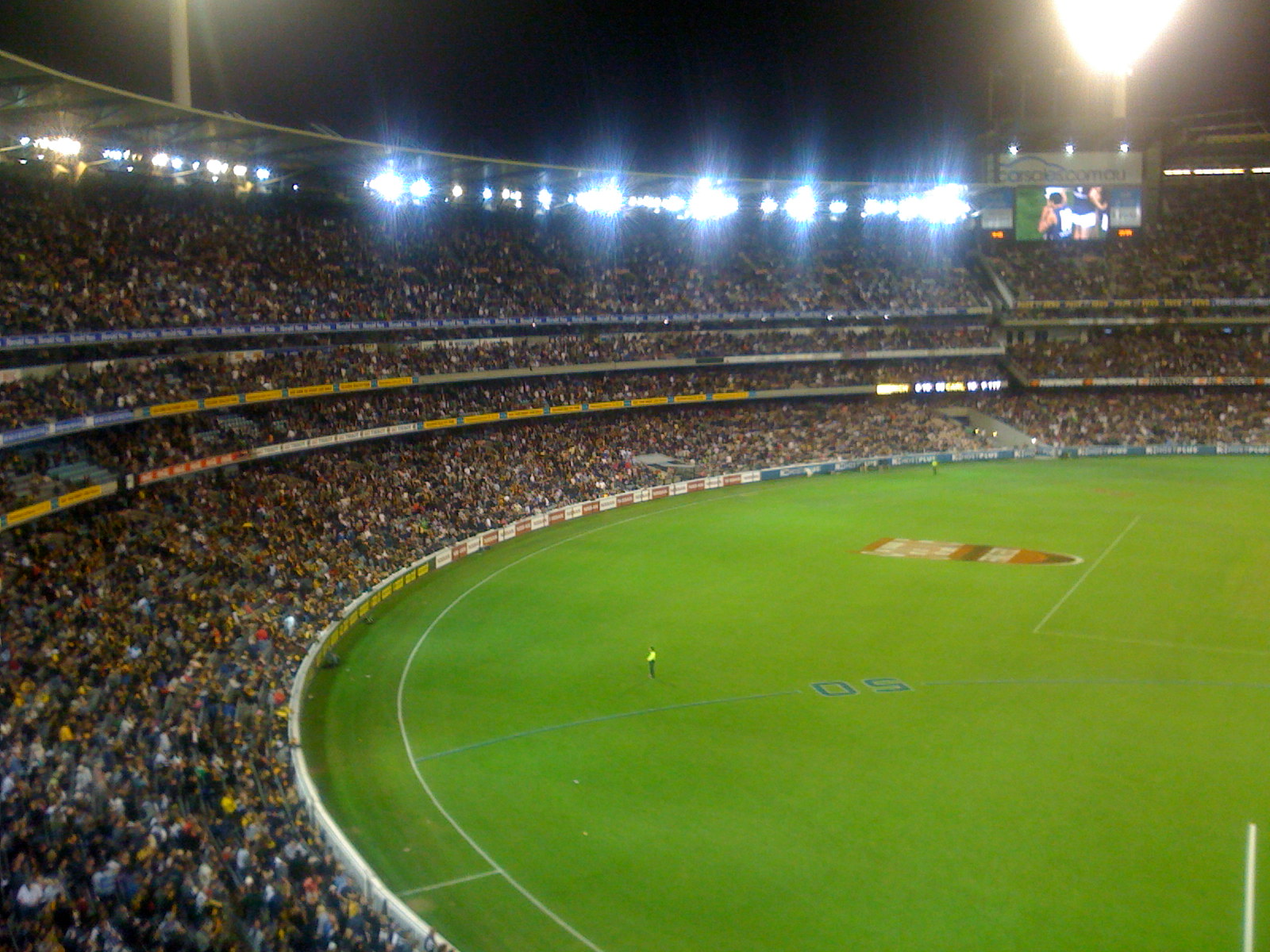 A sold out crowd at the Melbourne Cricket Ground during the Carlton v. Richmond game, 2009 AFL season.